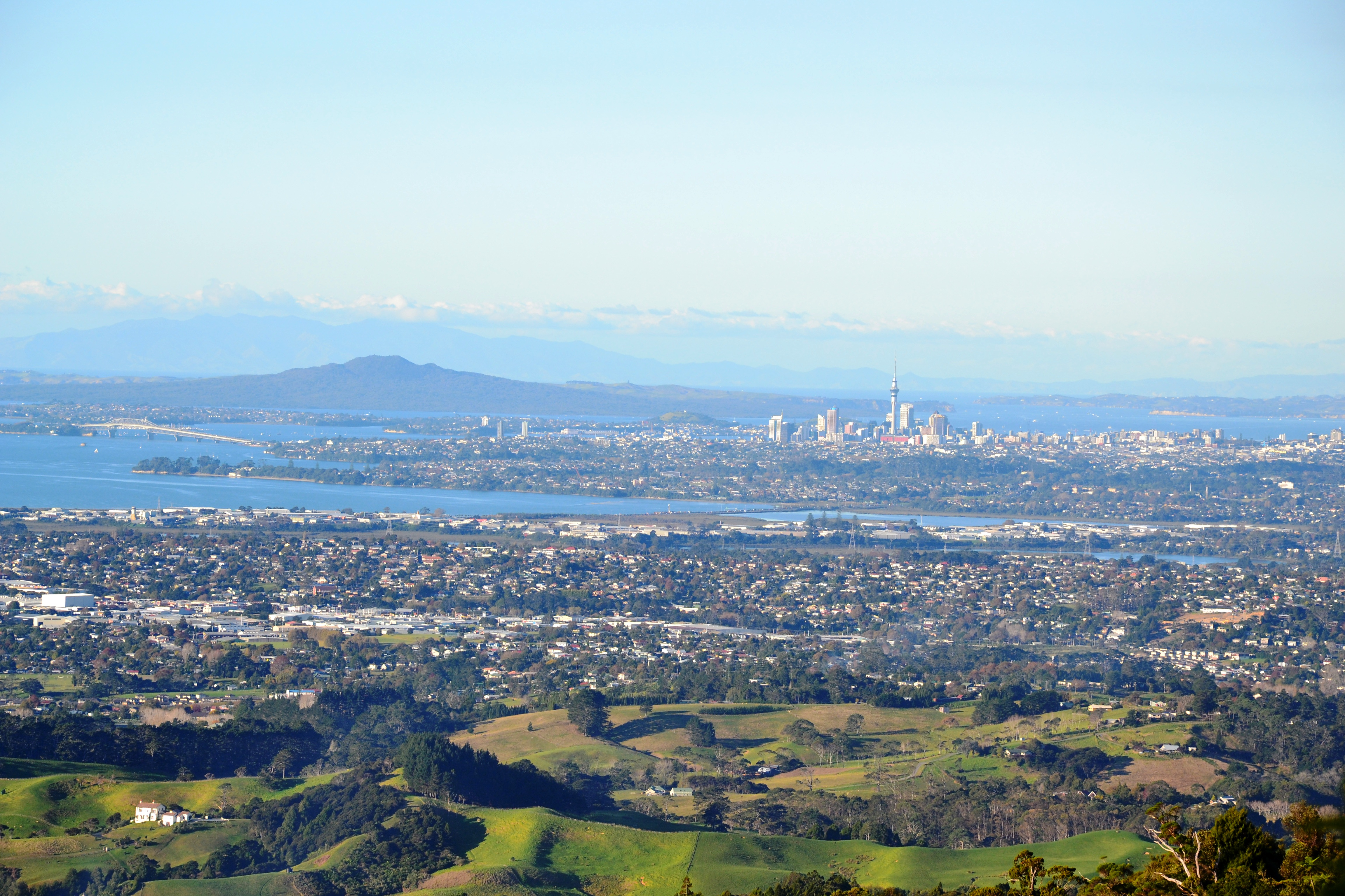 Auckland from the Waitakere